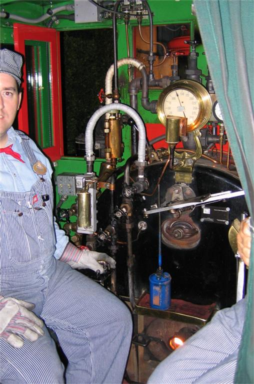 Took this photo at Disneyland, CA